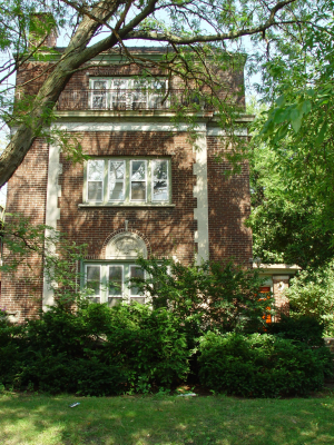 Summary (source=Guy Leavitt, member and Treasurer of GA Chicago co-operative, who photographed this residence on August 7, 2006 and resized photo for internet display)